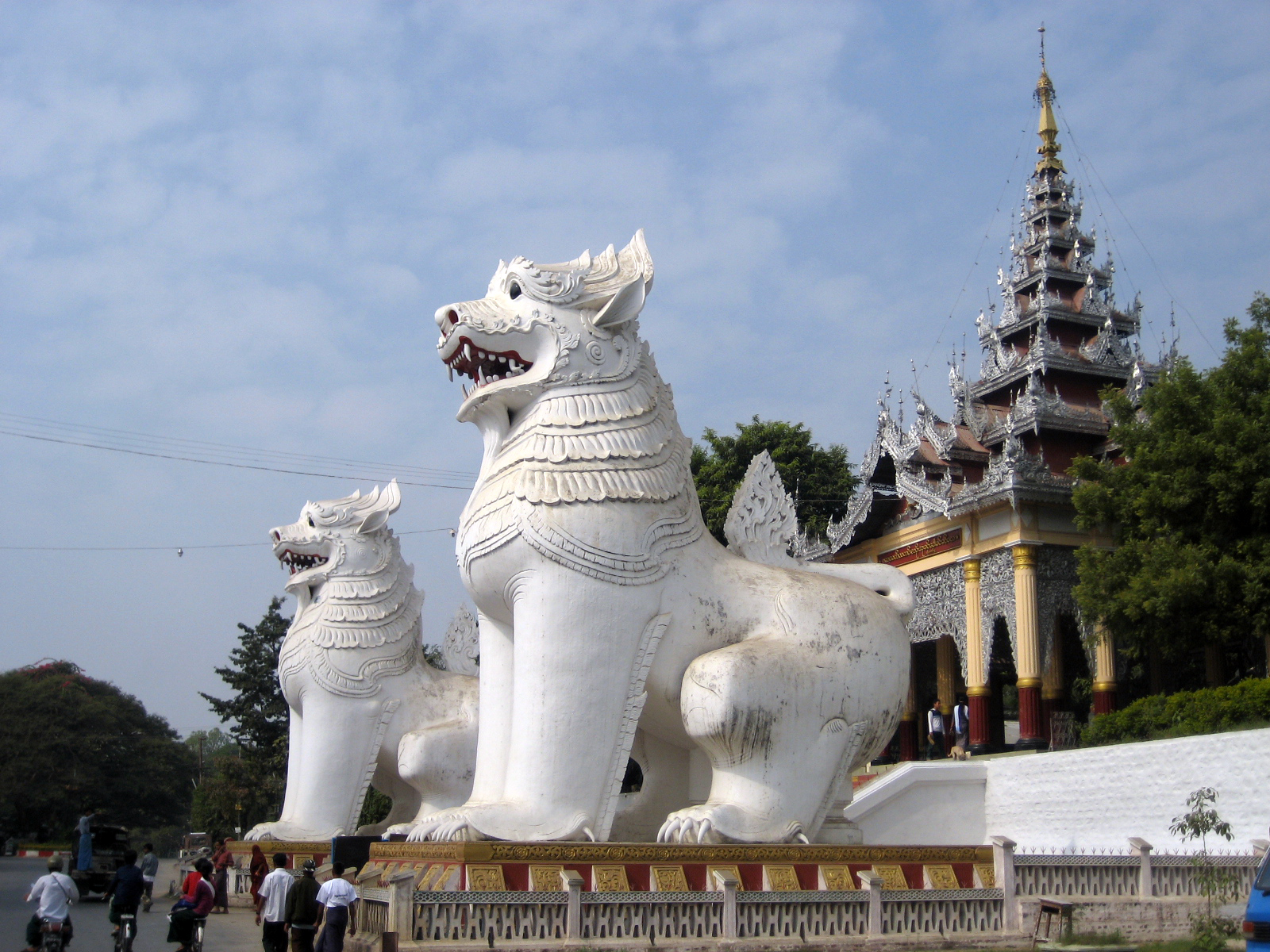 Two giant Chinthes standing guard at the southern approach to Mandalay Hill